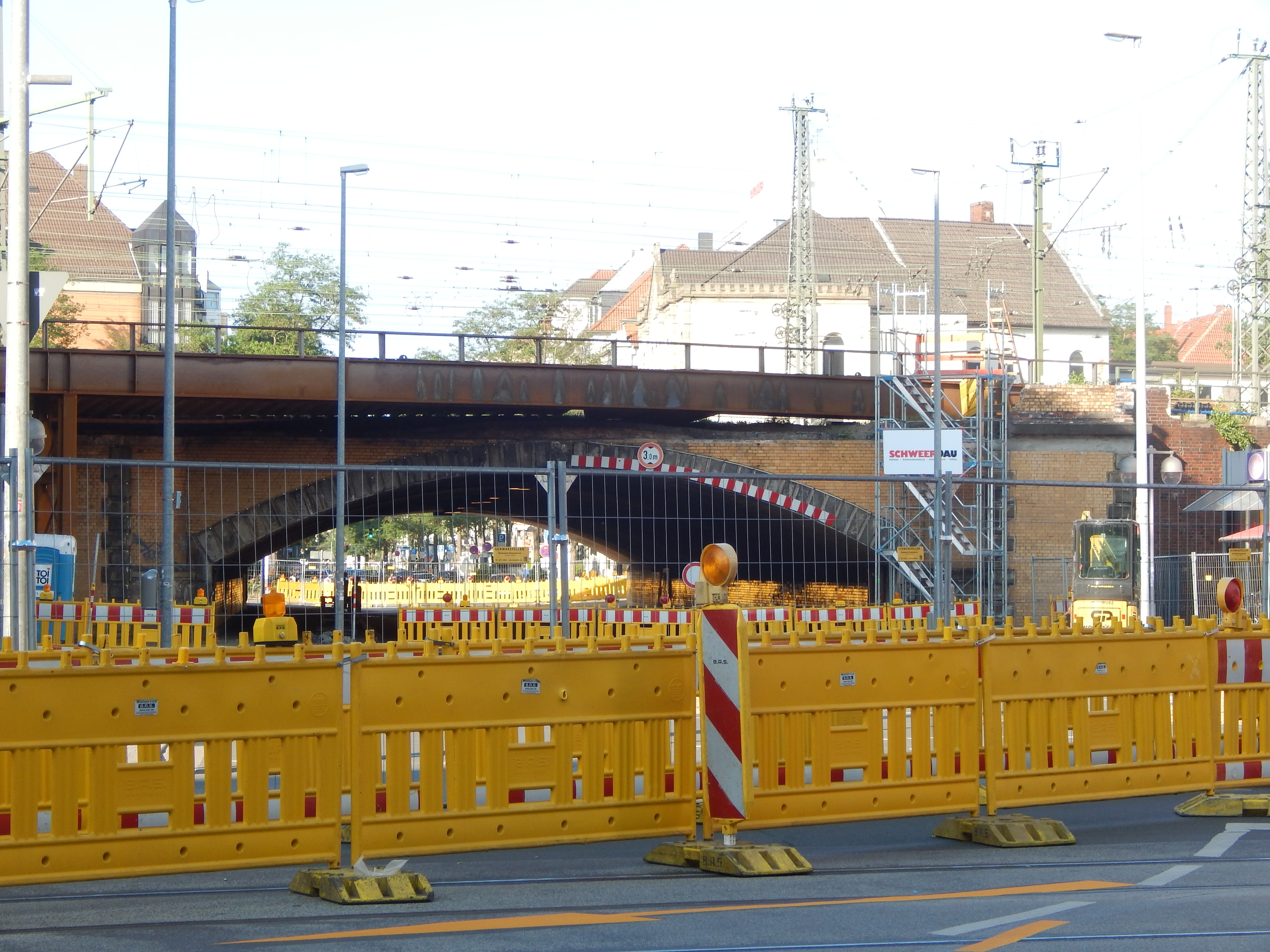 Start of works near Hannover Central station in june 2018